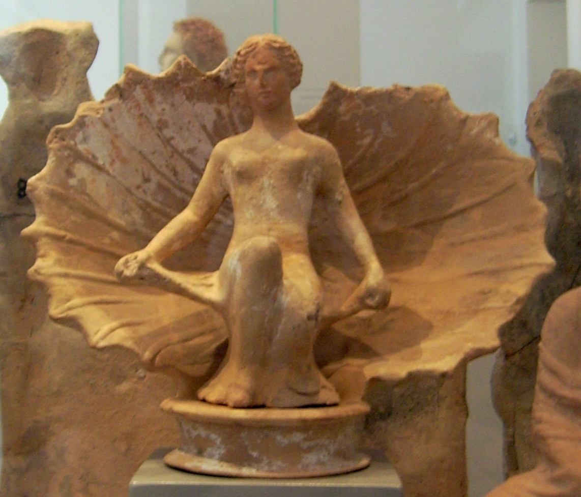 Terracotta figurine of Aphrodite